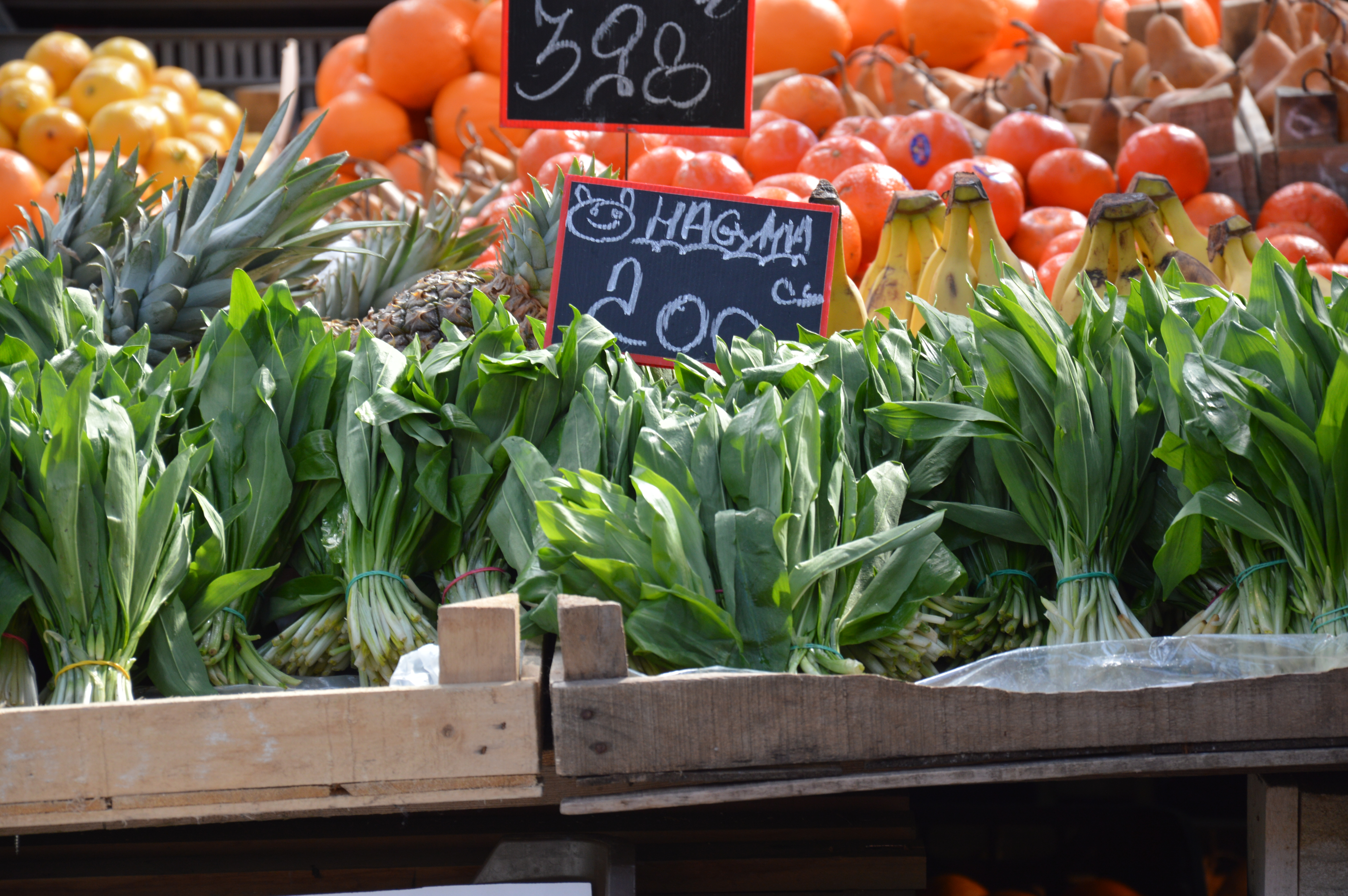 Allium ursinum for sale at Bosnyák tér market in Budapest, Hungary. The Hungarian name for the plan, "medvehagyma", is written on the sign using the illustrated face of a bear (medve) and the written word hagyma (onion).